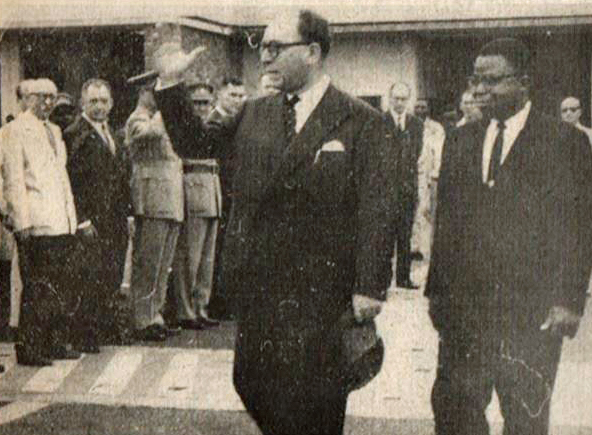 President Joseph Kasa-Vubu with Governor-General Hendrik Cornelis